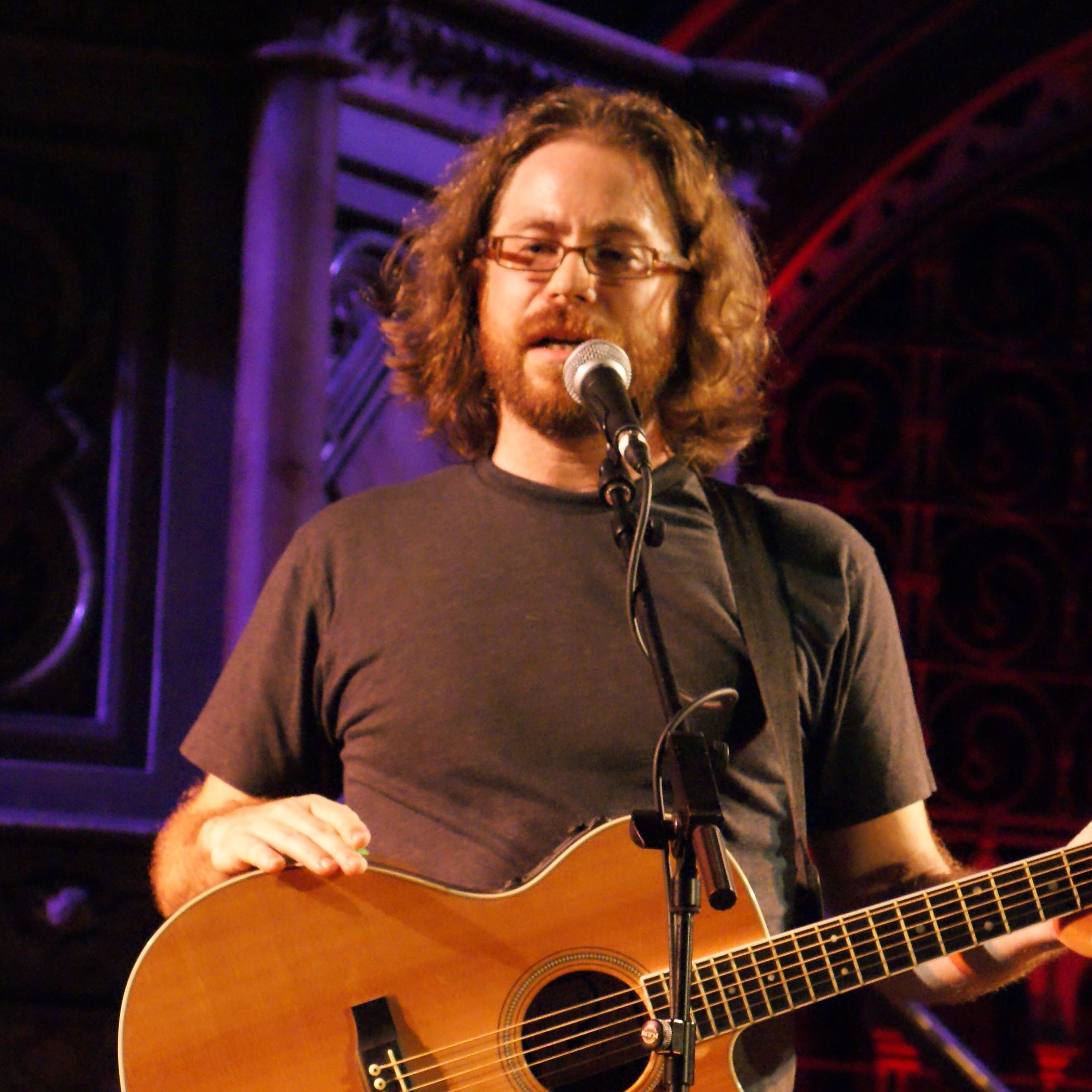 Jonathan Coulton (and Paul and Storm) at Union Chapel 13/11/09